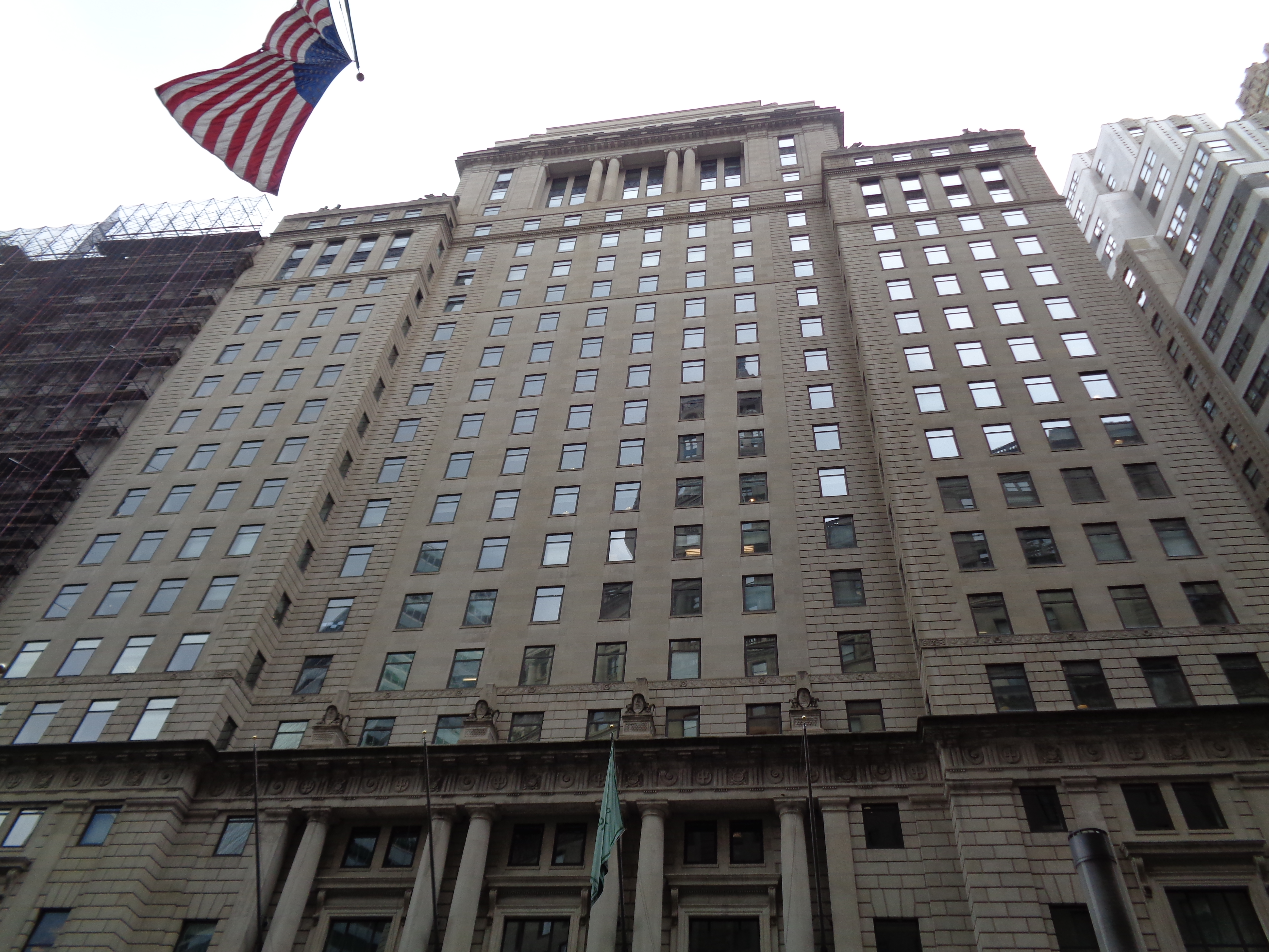 Looking at the Cunard Building in the Financial District, Manhattan.